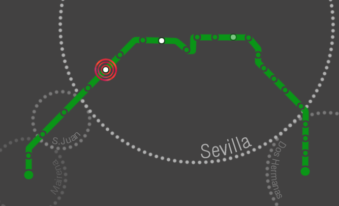 location